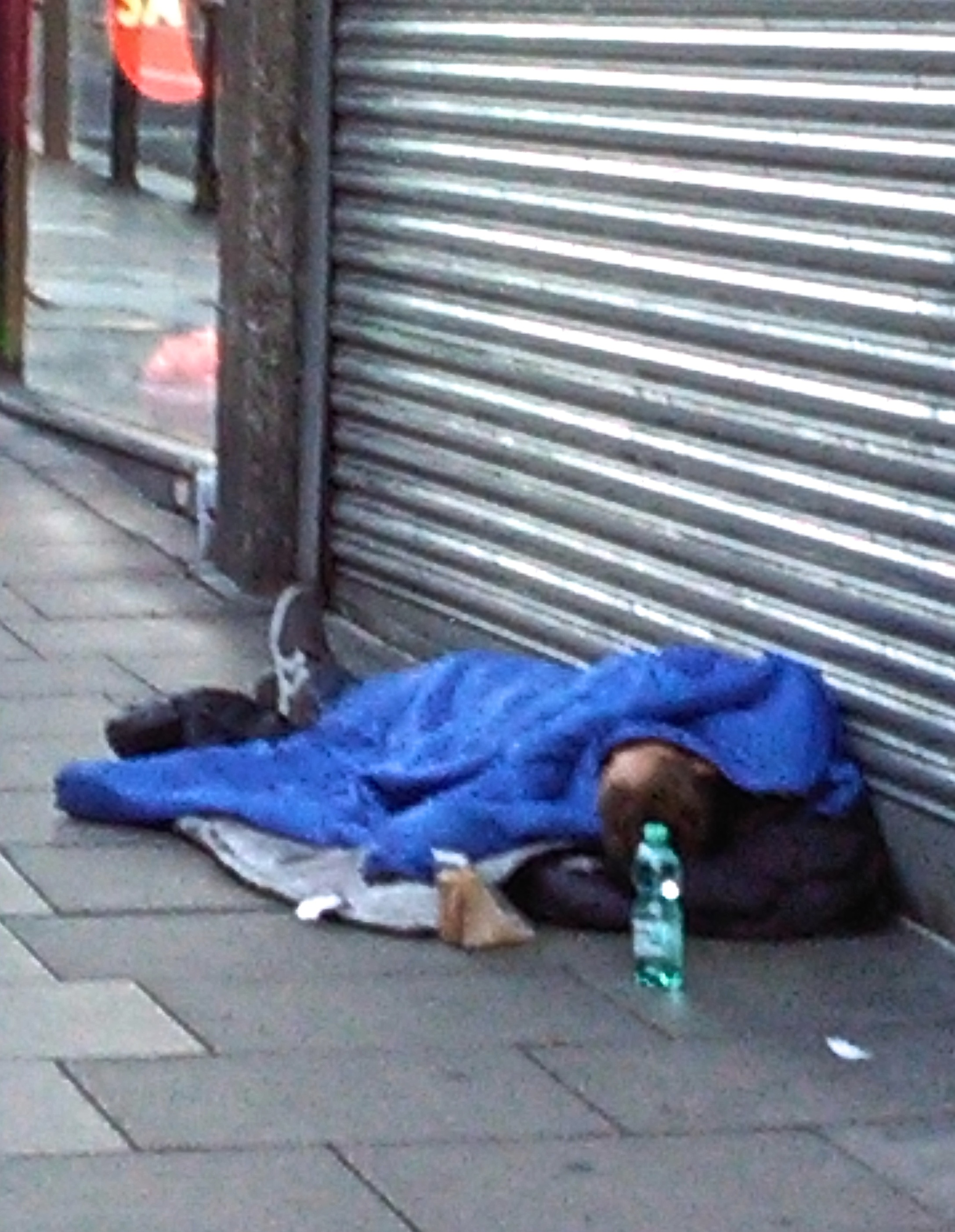 Homelessness, Georges Street, Dublin, Summer 2016